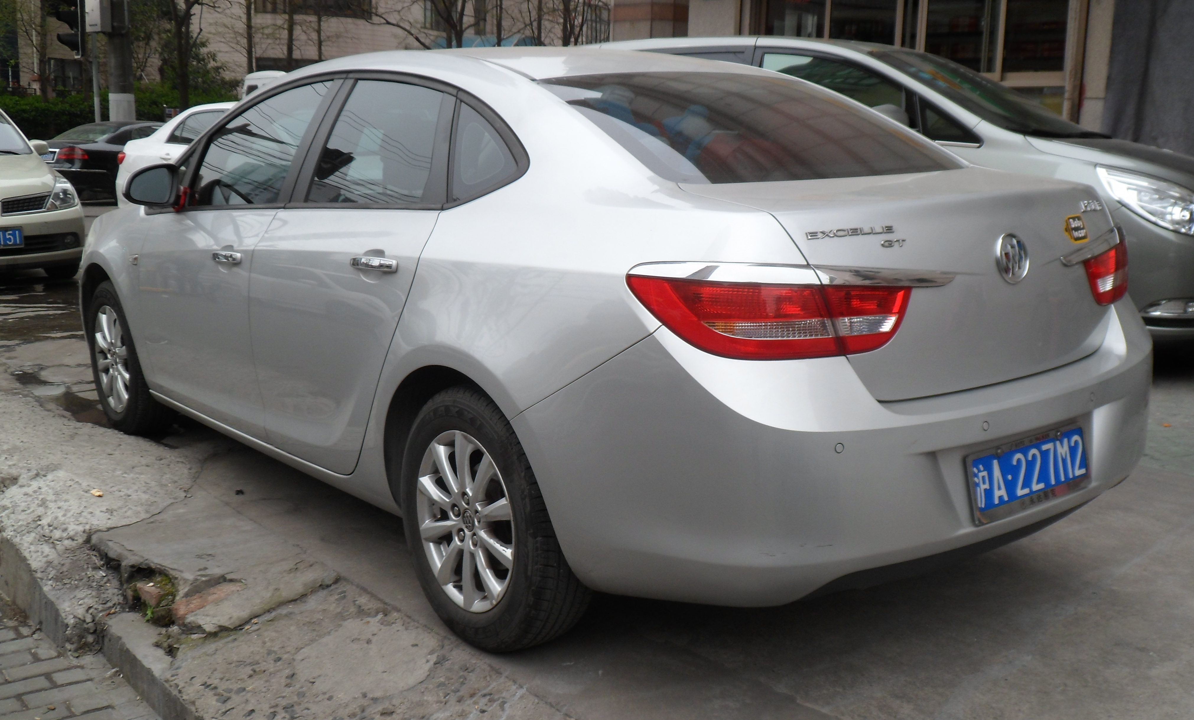 Buick Excelle GT photographed in Shanghai, China.